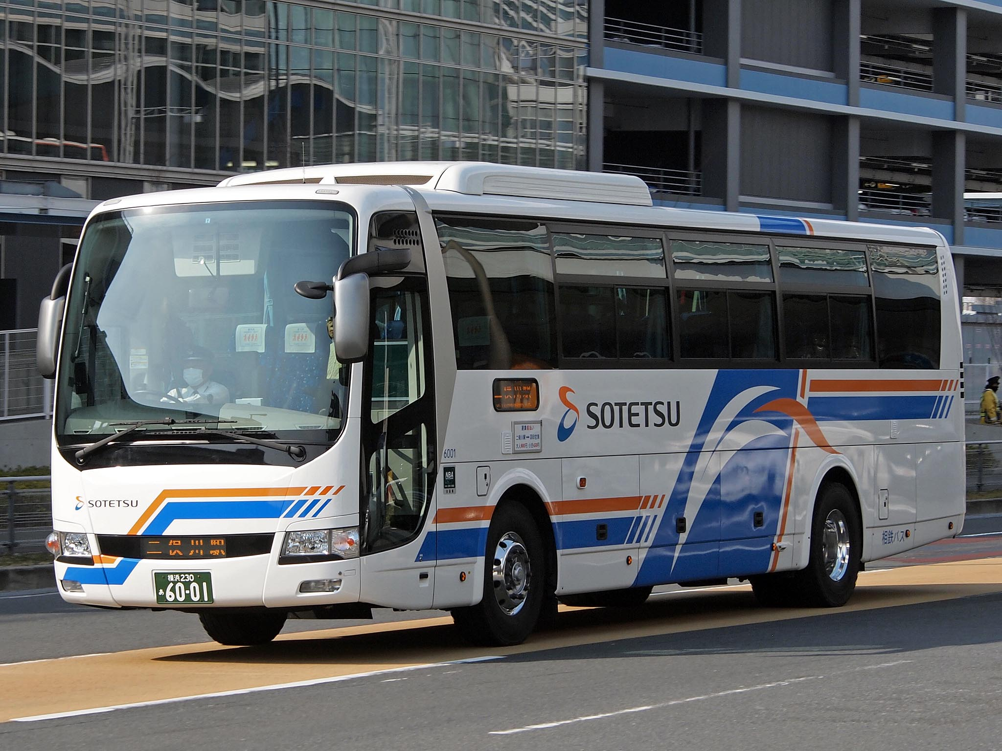 Fleet of Sotetsu Bus, Airport shuttle bound for Futamatagawa, Yokohama, from Haneda Airport. Model: Mitsubishi Fuso Aero Ace BKG-MS96JP License plate: KNY230 A6001 ex. KNS230 A6001 Place: Tokyo International Airport